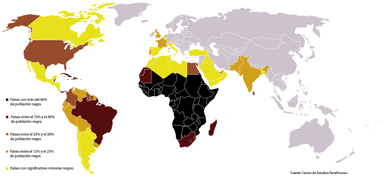 This is a map showing the world's distribution of the black population. In black, the countries in which populations are mostly black. In blue, the countries which have important black populations.